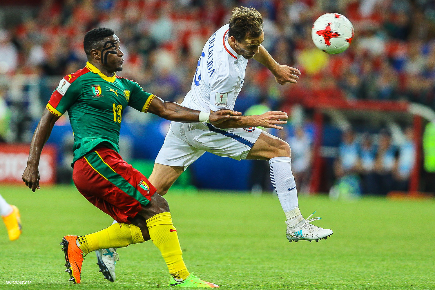 Cameroon vs Chile (0-2). FIFA Confederations Cup 2017